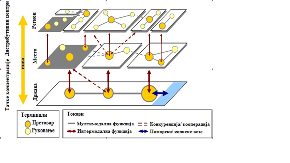 Приказ мултимодалног транспортног система на различитим нивоима